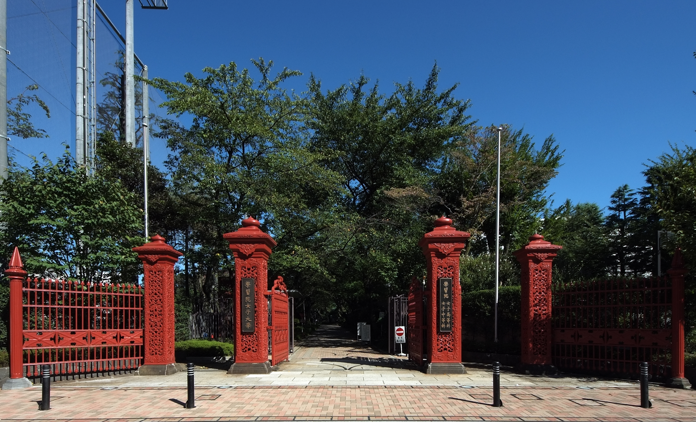 Former Main Gate of Gakushuin, 3-20-1 Toyama, Shinjuku-ku, Tokyo, built in 1877.